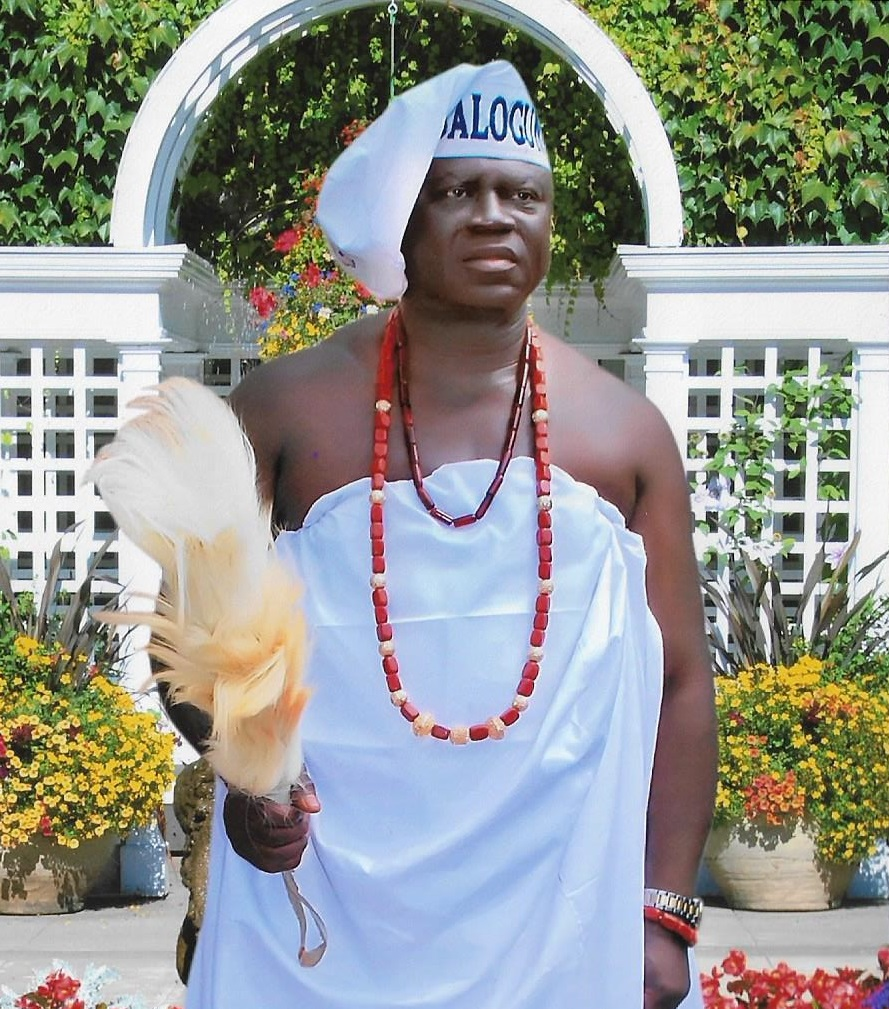 Samuel Ilesanmi Alade as the Balogun of Akure Land